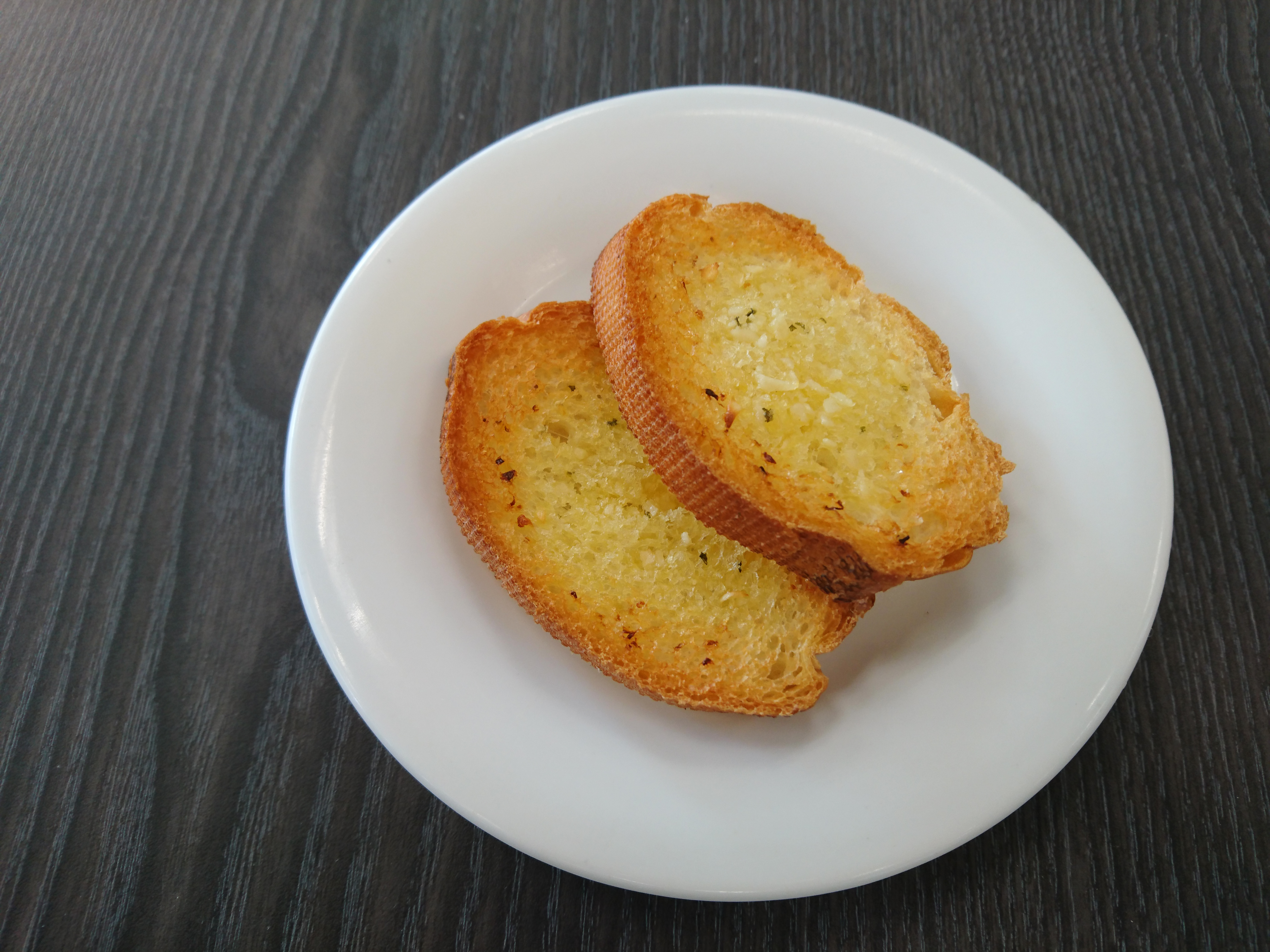 2 Pieces of Garlic Breads